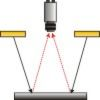 Automated Optical Inspection